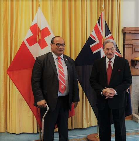 Tongan Prime Minister Pohiva Tuʻiʻonetoa and NZ Foreign Minister Winston Peters in 2019